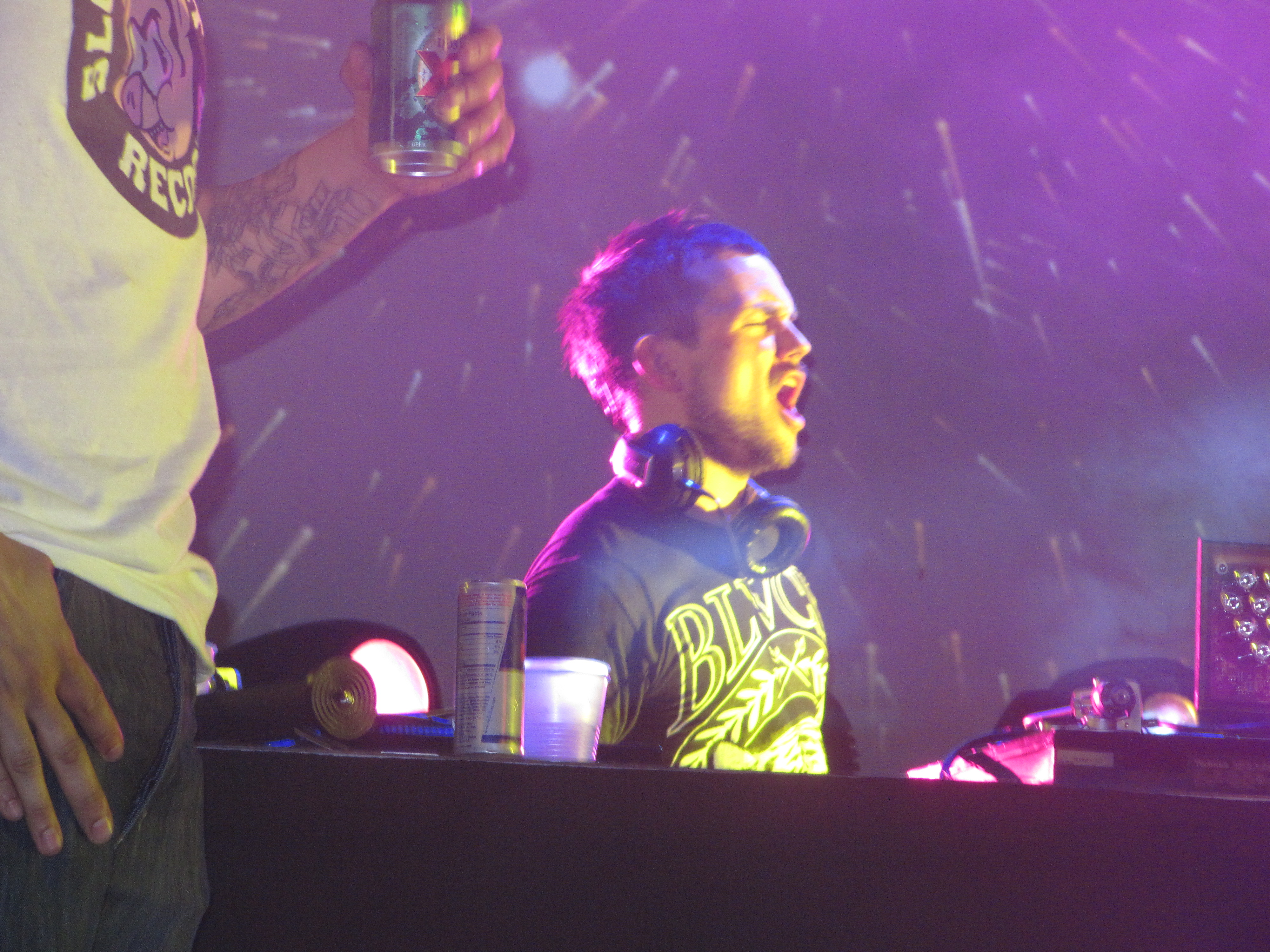 Dieselboy performing multi-genre set at Starscape, Baltimore, MD, July 6, 2010 Photo by Mary Morris